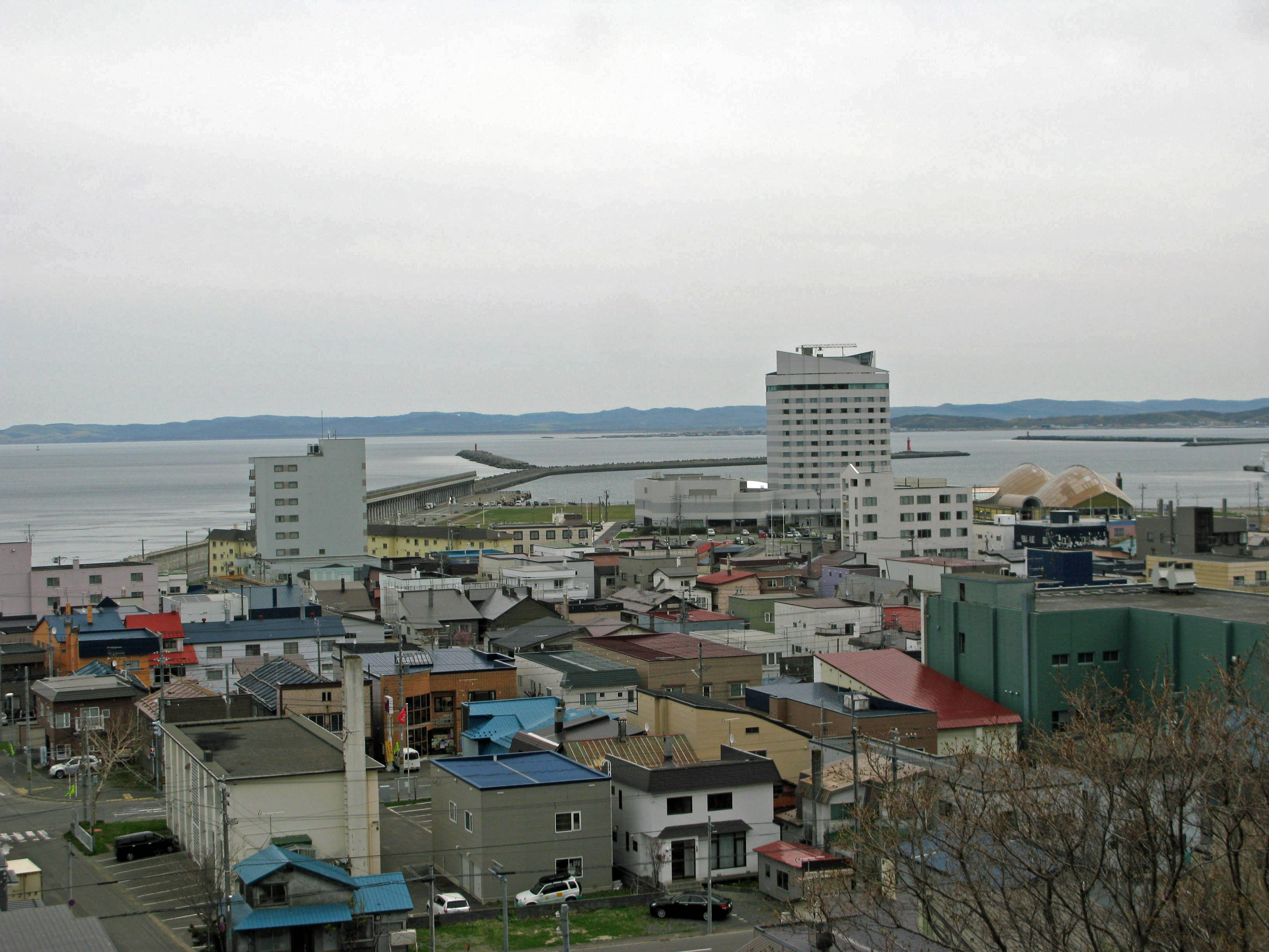 View over Wakkanai City from Wakkanai Park